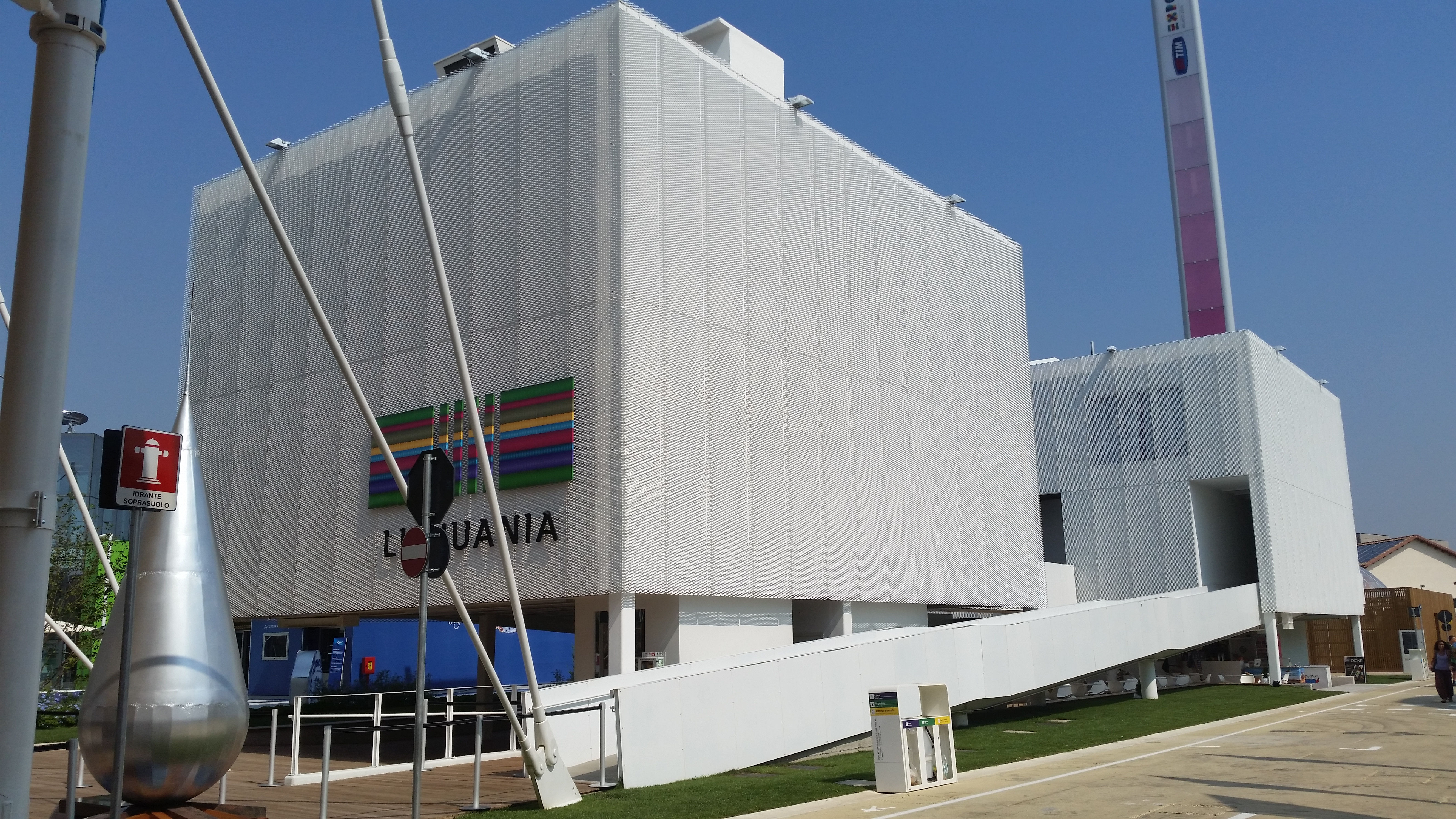 Pavilion of the Expo 2015 located in Milano (Italy)